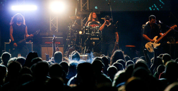 Troja